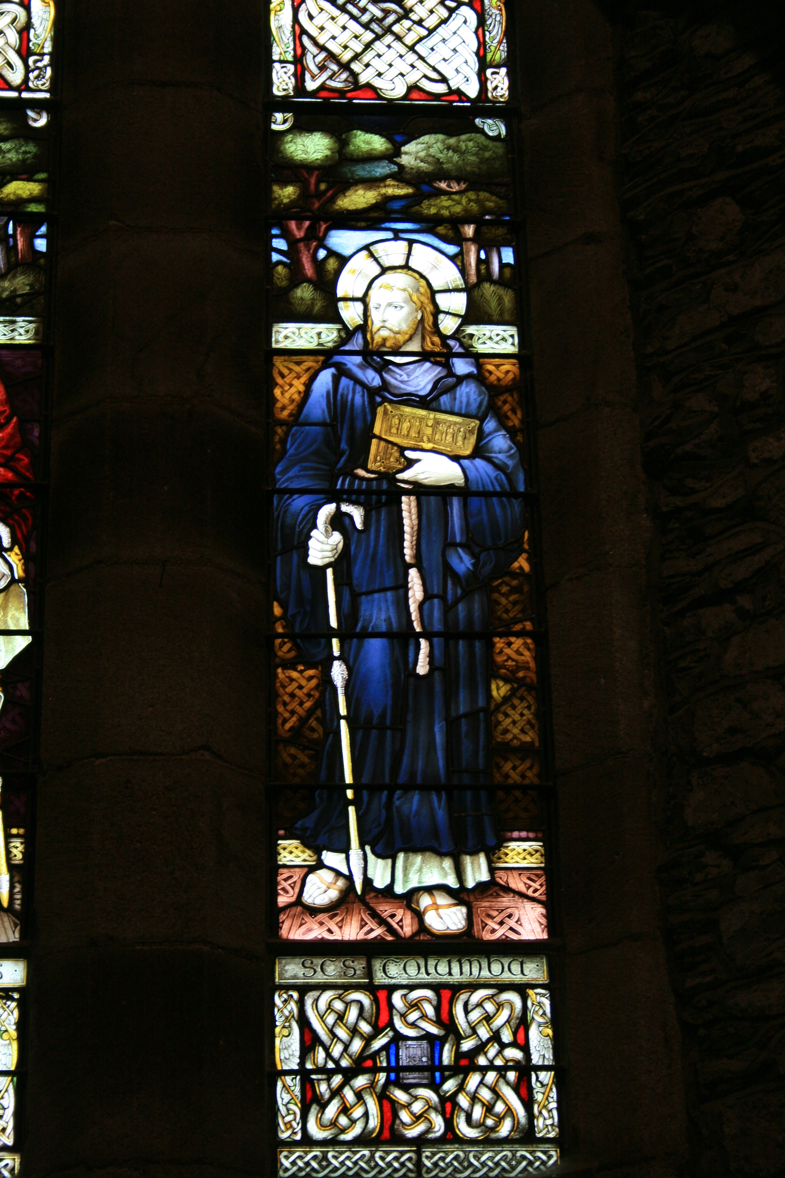 San Columba di Iona, St. Brigid's Cathedral, Kildare, Ireland